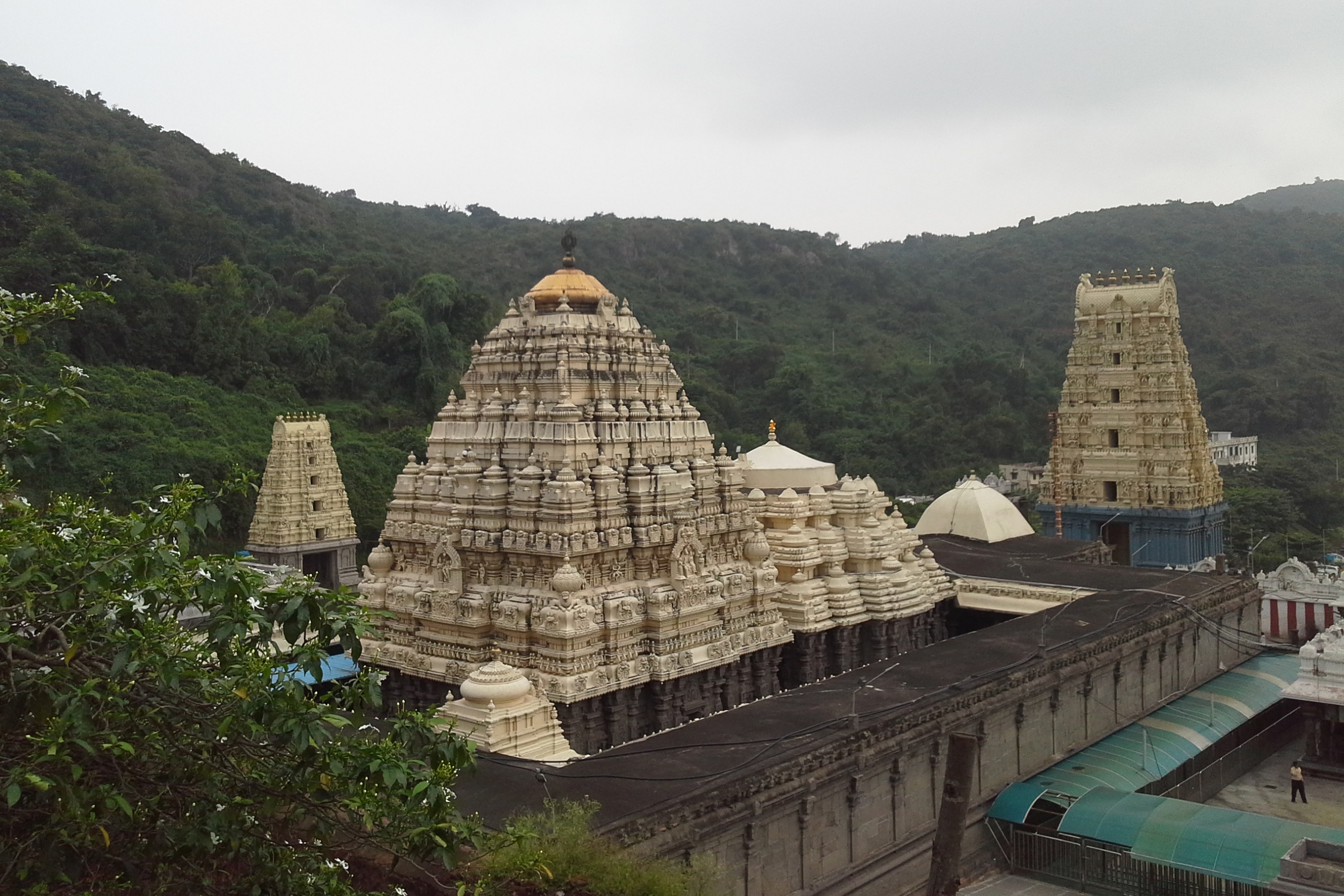 Simhachalam temple view from the rear side hillock, Visakhapatnam